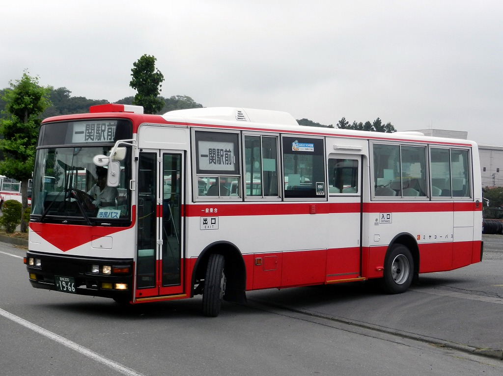 Miyako bus (Tsukidate) Mitsubishi Fuso Aero Midi MK (KC-MK619J,from Nagoya city bus)